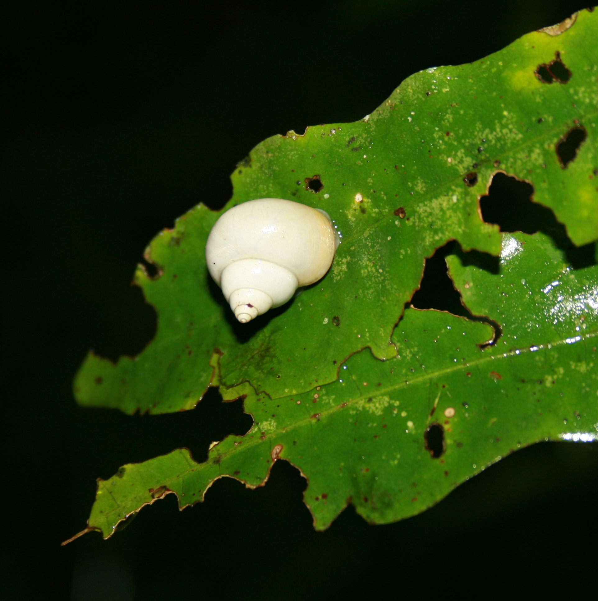 A White Tree Snail (Noctepuna cerea) in Diwan, Queensland.